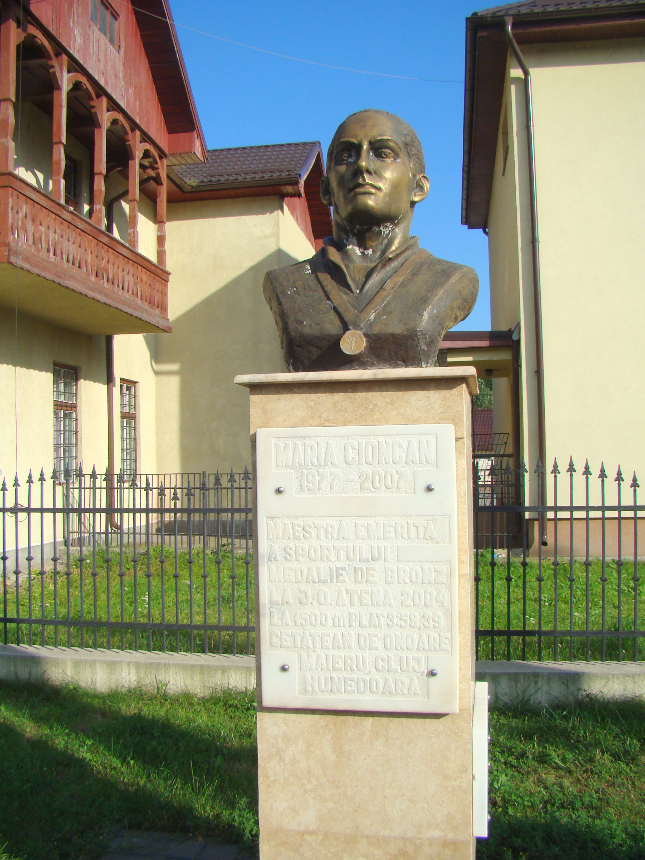 Maieru, Bistrița-Năsăud county, Romania